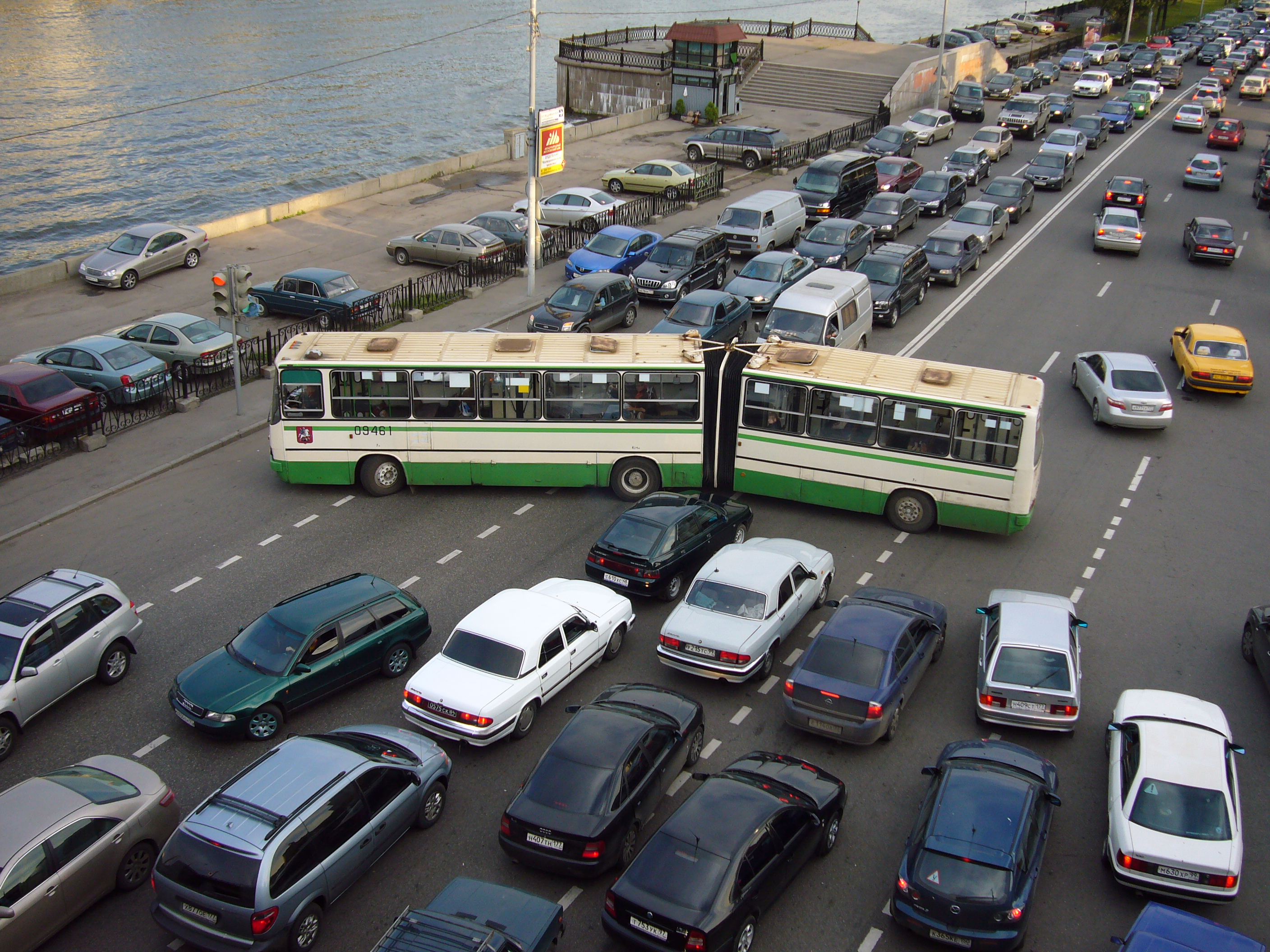 Traffic congestion at Kosmodamianskaya embankment in Moscow